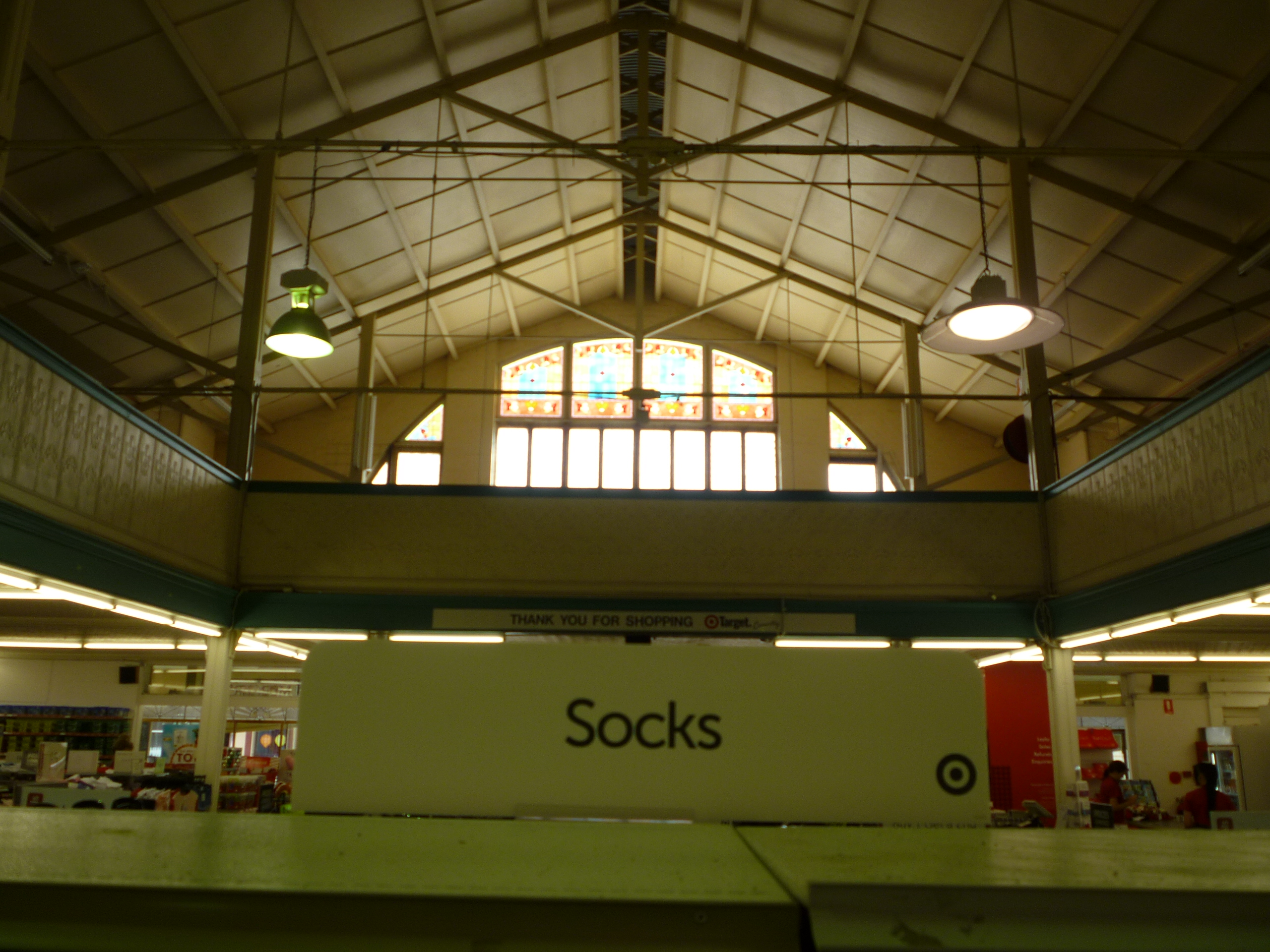 Interior of Target store, formerly Stan Pollard, Charters Towers Queensland